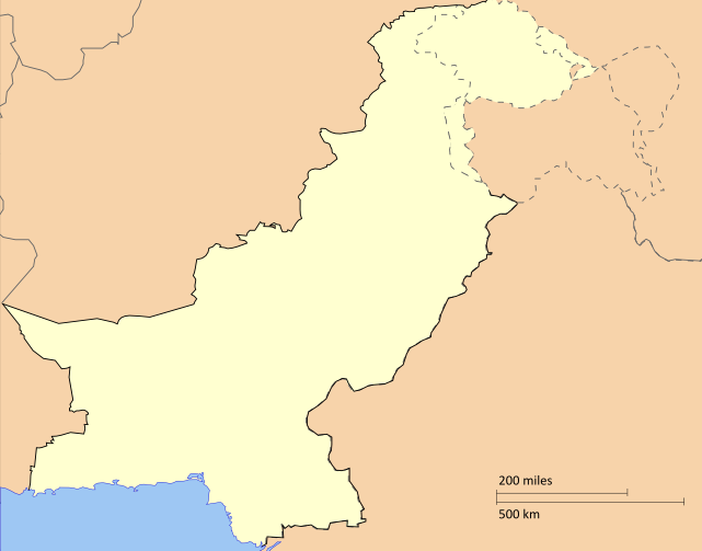 A basic locator map of Pakistan